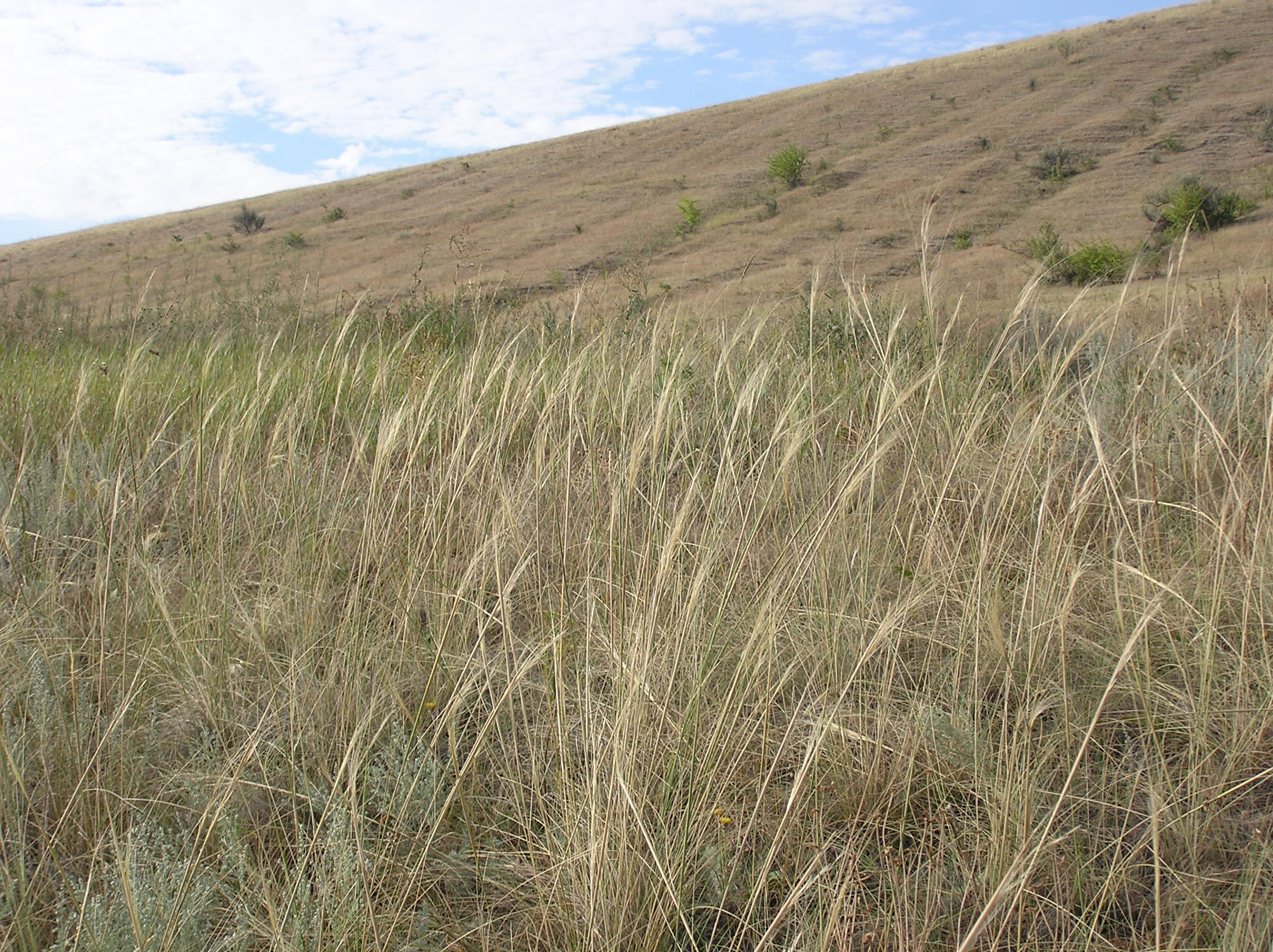 Stipa capillata (L.) on a hillside. Vicinity of Saratov city, Russia.